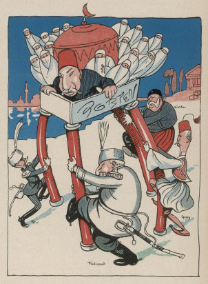 Caricature of the Balkan Wars (1912-1913), four European powers trying to topple the Ottoman Empire. The Ottoman's building is labelled "Porten" i.e. the Ottoman Porte (government) written in an Arabic inspired handwriting. In Danish: "port" normally denotes a gate or portal, hence the building's shape.